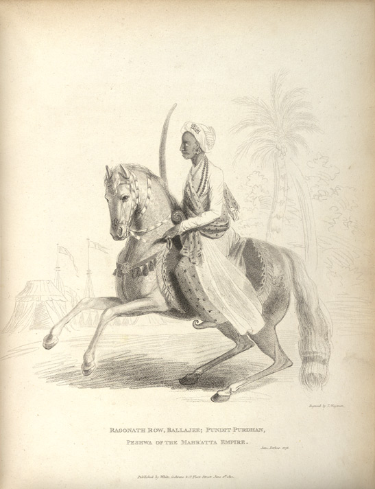 Ragonath Row Ballajee; Pundit Purdhan, Peshwa of the Mahratta Empire Ragonath Row Ballajee; Pundit Purdhan, Peshwa of the Mahratta Empire Artist: Forbes, James Medium: Engraving Date: 1813 ZoomifyInteractive zoomable image (needs Flash) Print imageFull size printable image More metadata Plate forty-one from the second volume of James Forbes' "Oriental Memoirs". In 1775 Forbes(1749-1819)was at Cambay as part of the Maratha campaign in Gujarat where his friend, Sir Charles Warre Malet(1752-1815)was the English Resident. He was present during the crucial political meeting between the Nawab of Cambay and the Mahratta Peshwa 'Ragonath Row'when he made this portrait. Forbes writes: 'This portrait, from a drawing made during the campaign in Guzerat in 1775, was thought to be a striking likeness of Ragobah, or Ragonath Row, the Brahmin sovereign of the Mahrattas.'